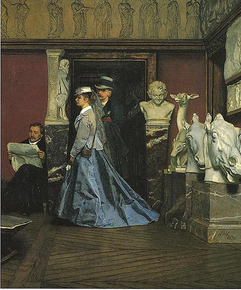 Visit of a museumlabel QS:Len,"Visit of a museum" label QS:Lde,"Museumsbesuch" label QS:Lnl,"Museumbezoek"